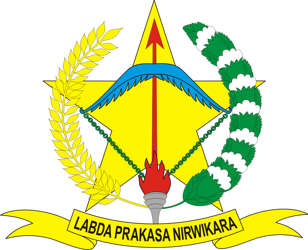 Logo of KOHANUDNAS